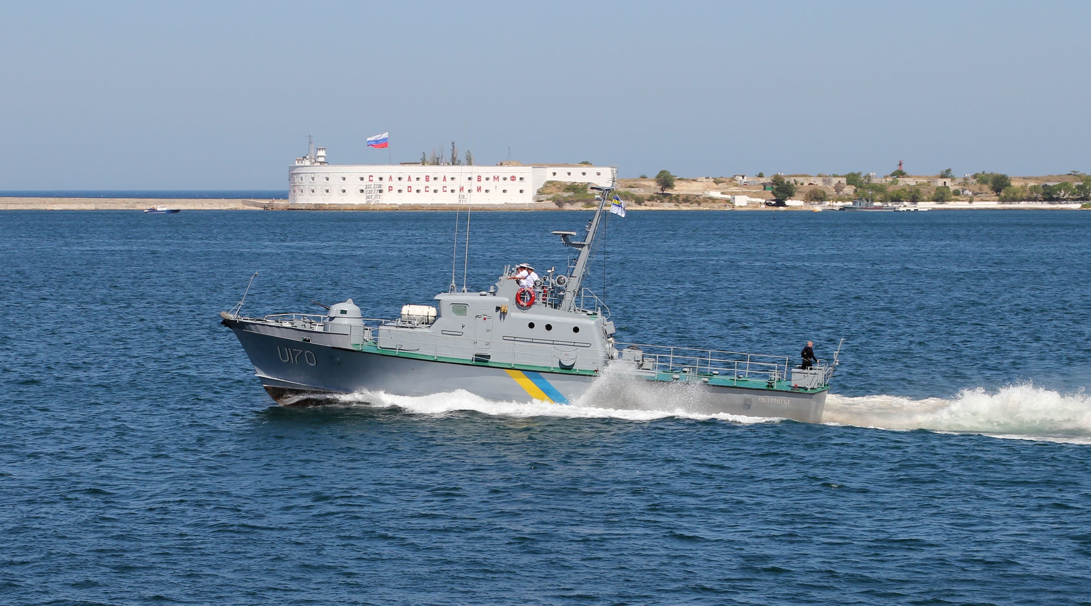 Ukrainian artillery boat U170 Skadovs'k. Project 1400M Grif-M/Zhuk class boat, known as AK-327 while in the Soviet marine. Sevastopol Bay, Crimea.